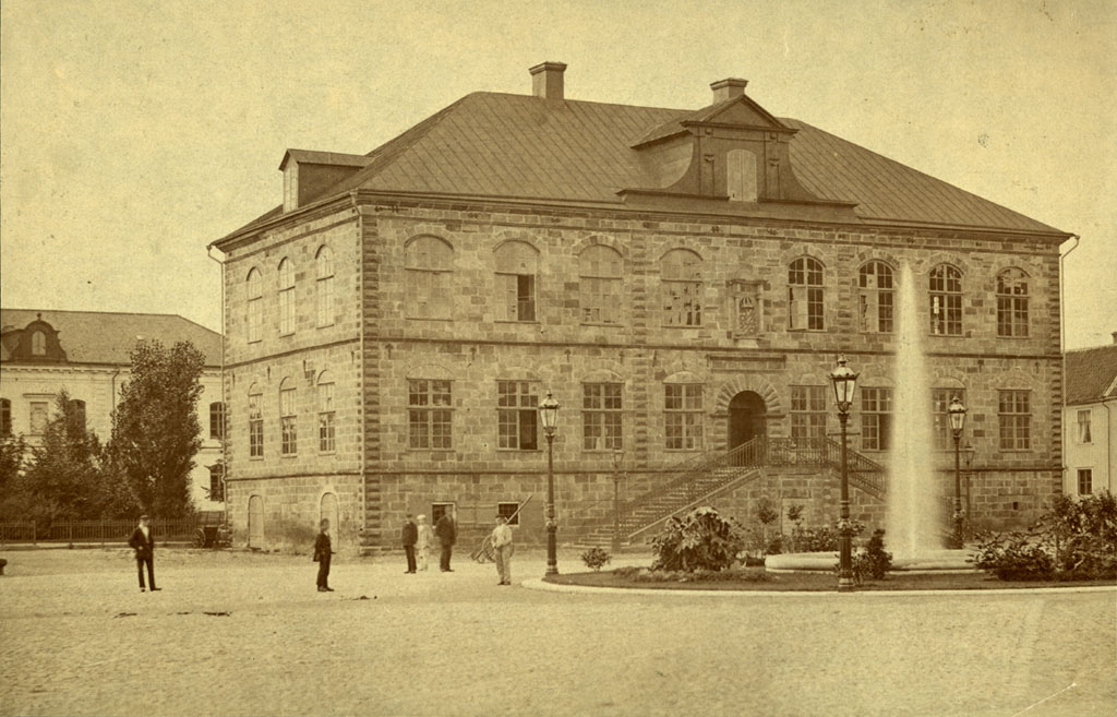 Göta Court of Appeal at Hovrättstorget square in Jönköping. The building is used by the Court of Appeal since 1650. Format: Albumen print Photograph by: Unknown Date: 1870s Format: Albumen print